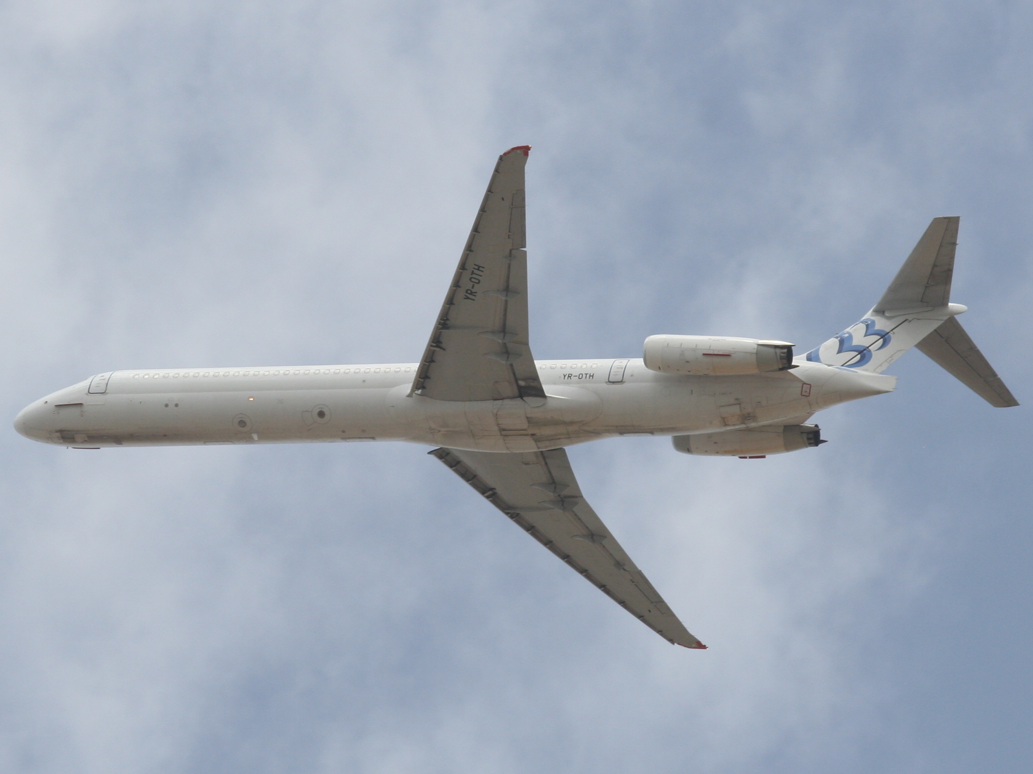 At Ben Gurion International airport.